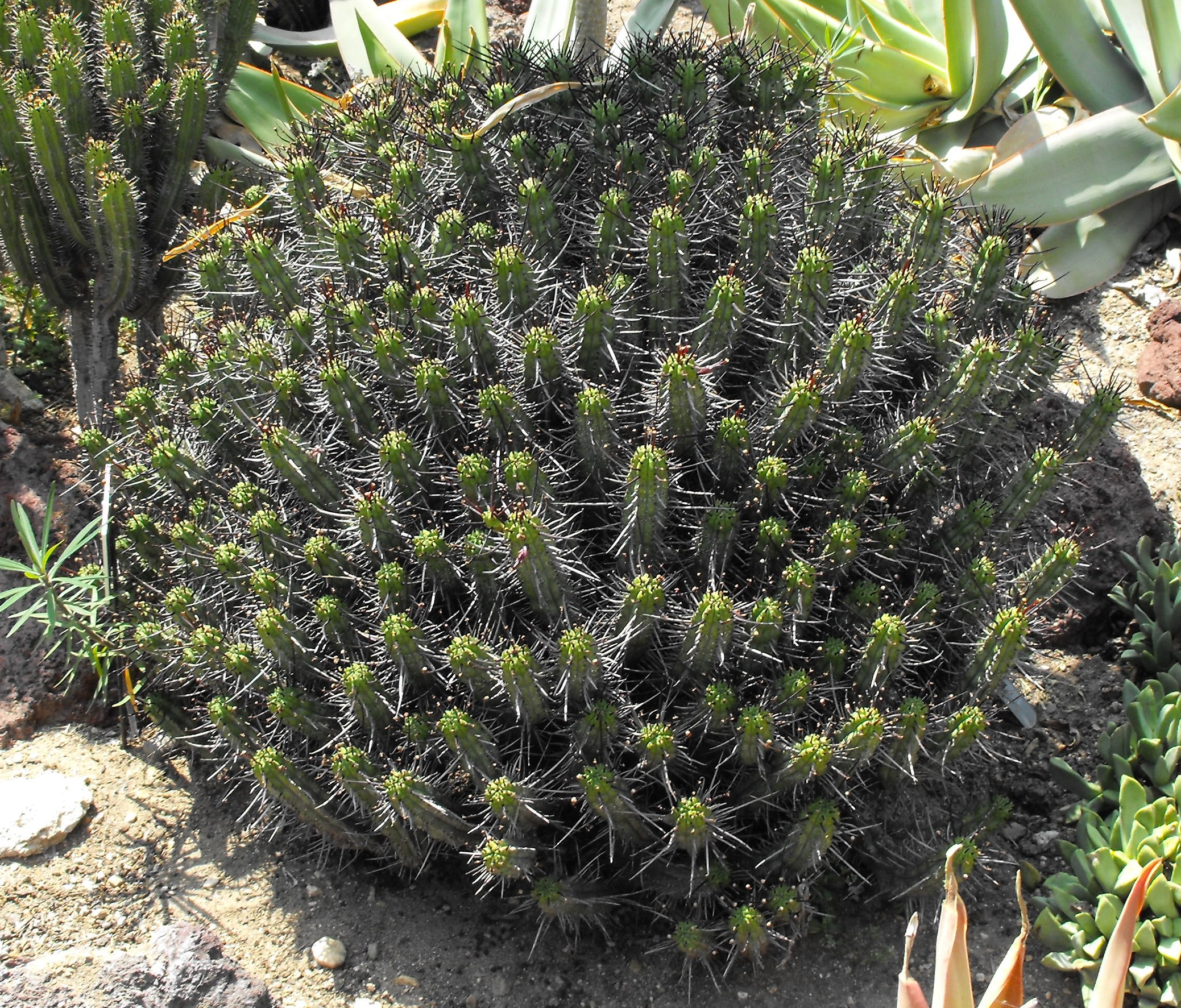 Euphorbia atrispina at the Huntington Library & Botanical Gardens in San Marino, California, USA. Identified by sign.